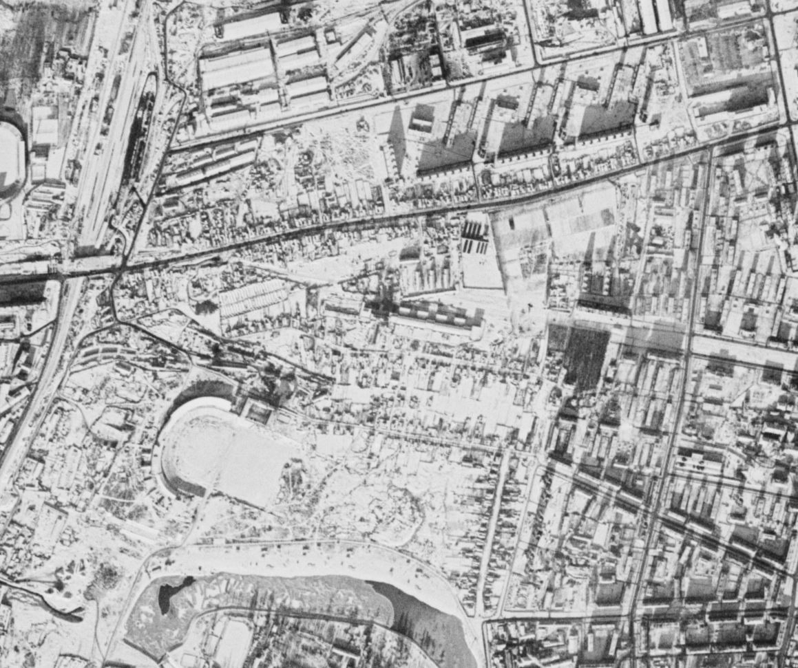 Moscow Kaloshono village. Part of Corona satellite imagery